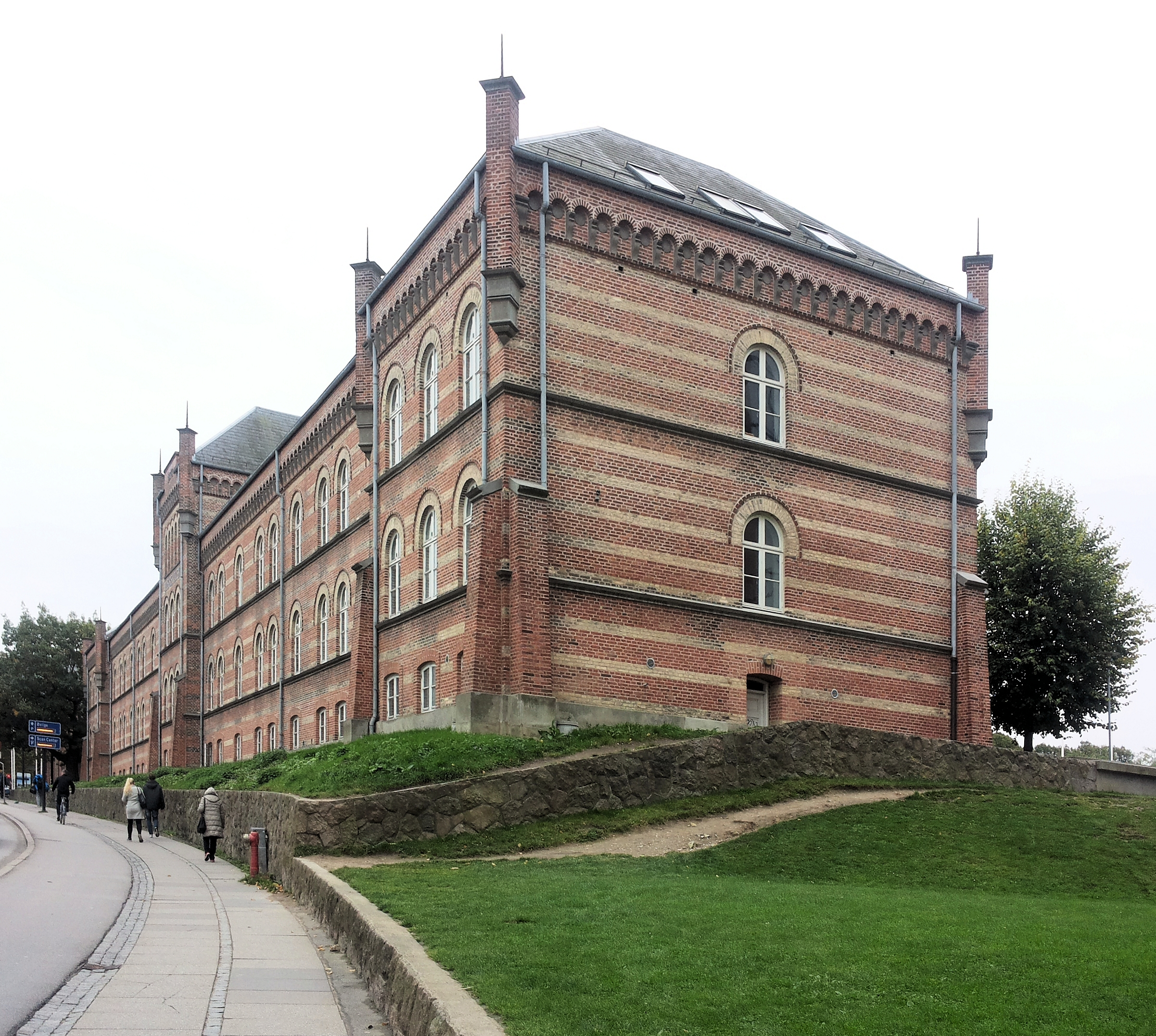 Vester Allés Kaserne seen from Vester allé